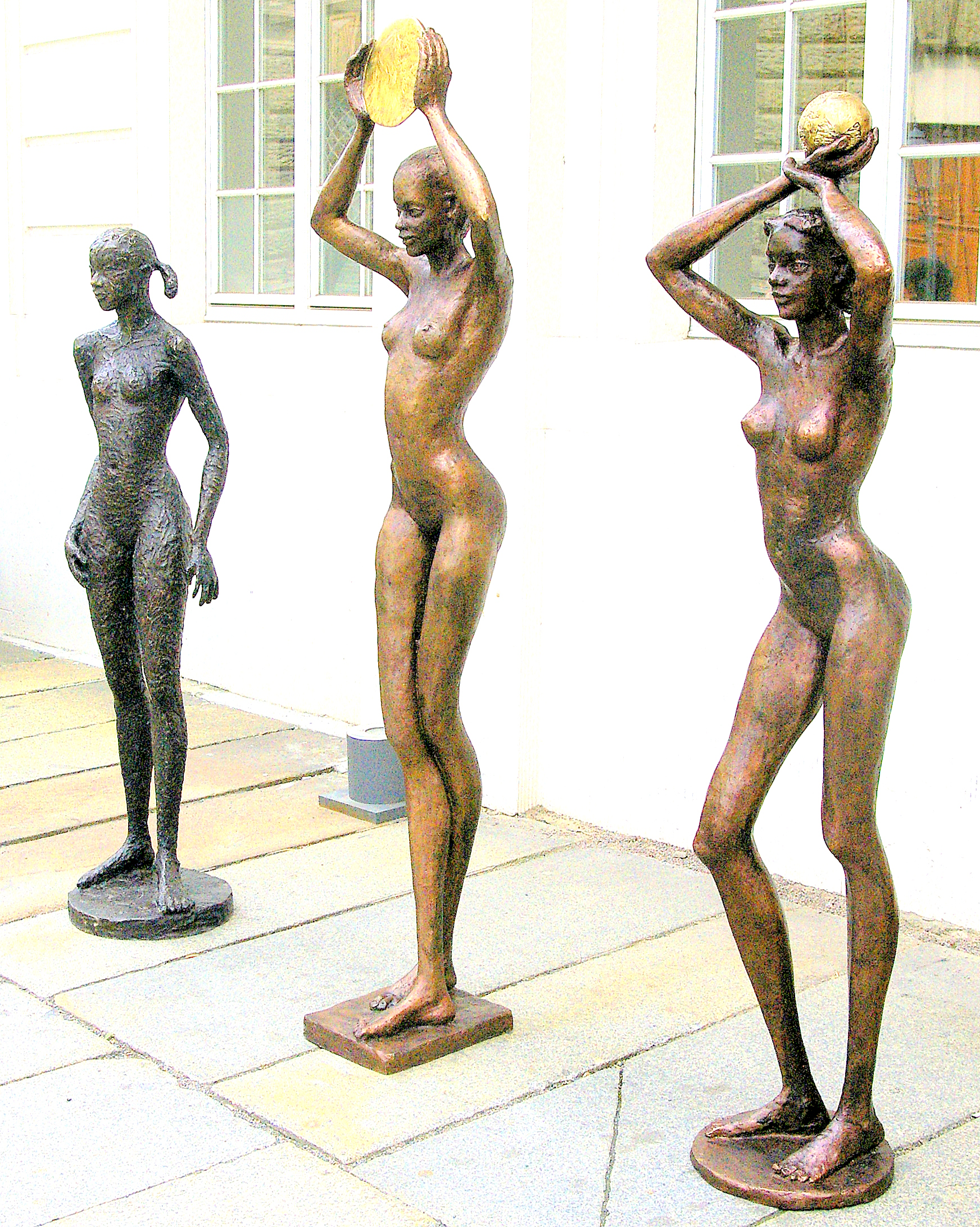 3 livesize figures from Thomas Reichstein from 2010-2011, left: "Germana", "Sunwoman", "Earthwoman"